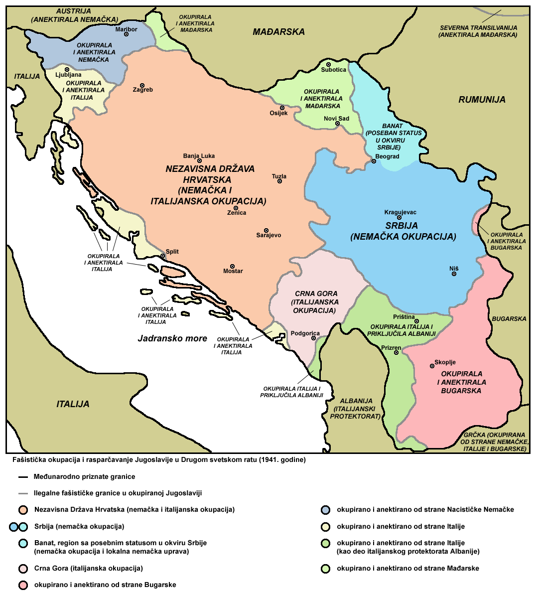 Fascist occupation and partition of Yugoslavia in World War II (as of 1941) - Serbian language version.